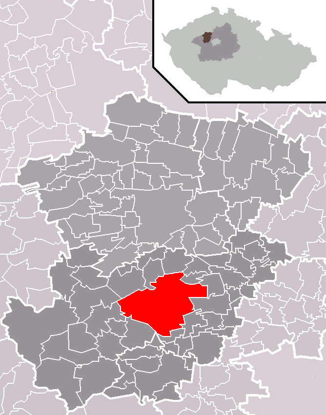 Location of Kladno city within Kladno District and administrative area of Kladno as a Municipality with Extended Competence.